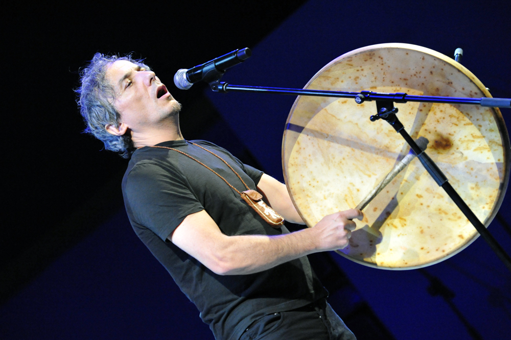 Torgeir Vassvik singing yoik and playing the sámi drum at Cross Culture Festival in Warszawa, October 2011.